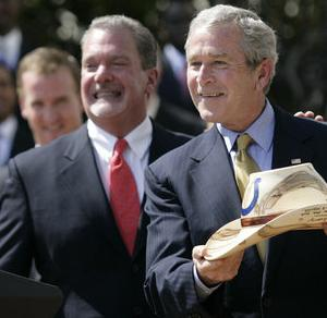 President George W. Bush shows the signed cowboy hat presented to him by Indianapolis Colts team owner and CEO Jim Irsay, left, during the White House ceremony to honor the Super Bowl champions Monday, April 23, 2007.